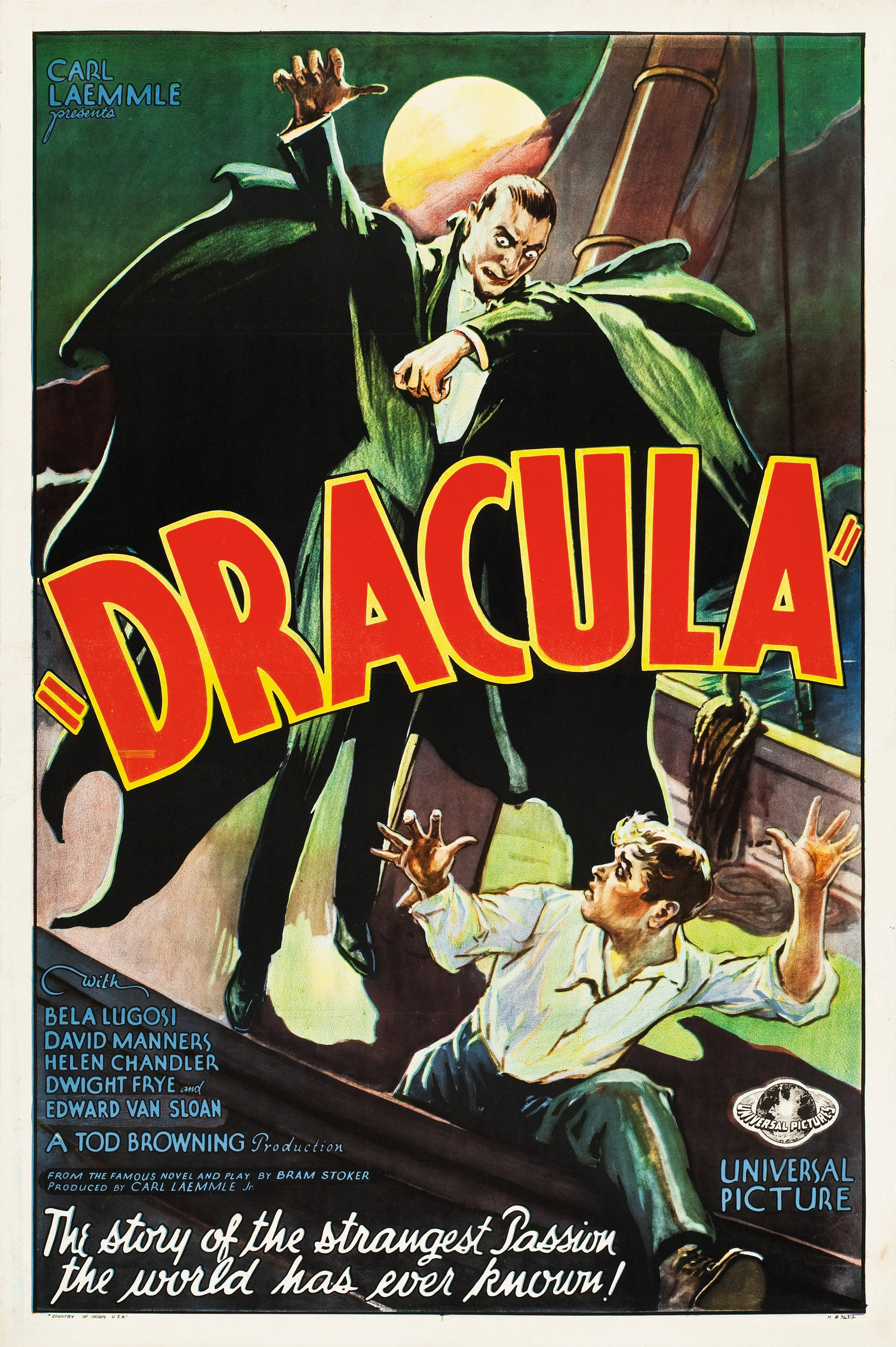 "Style F" theatrical release poster for the 1931 film Dracula.